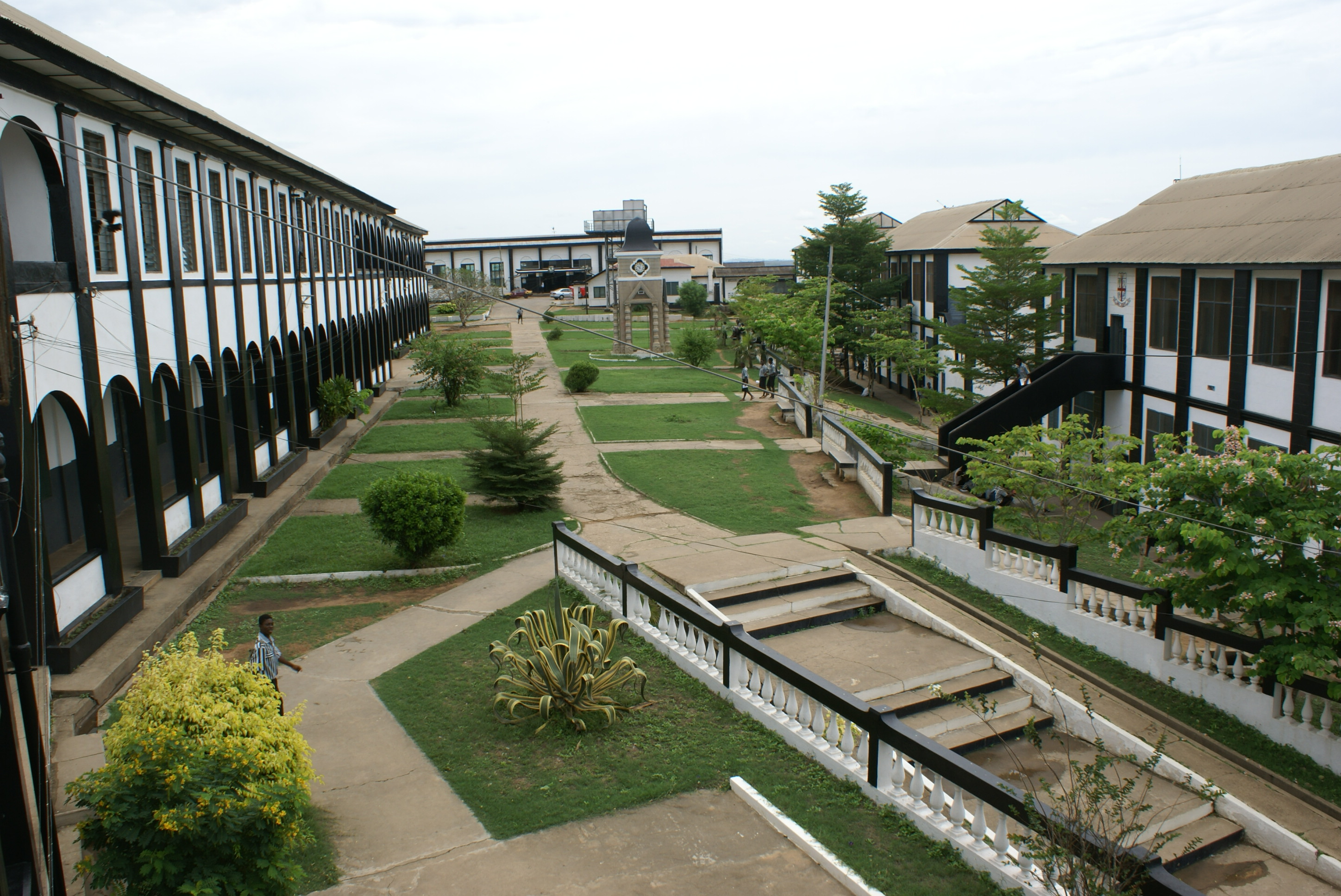 The main campus also known as Santa City